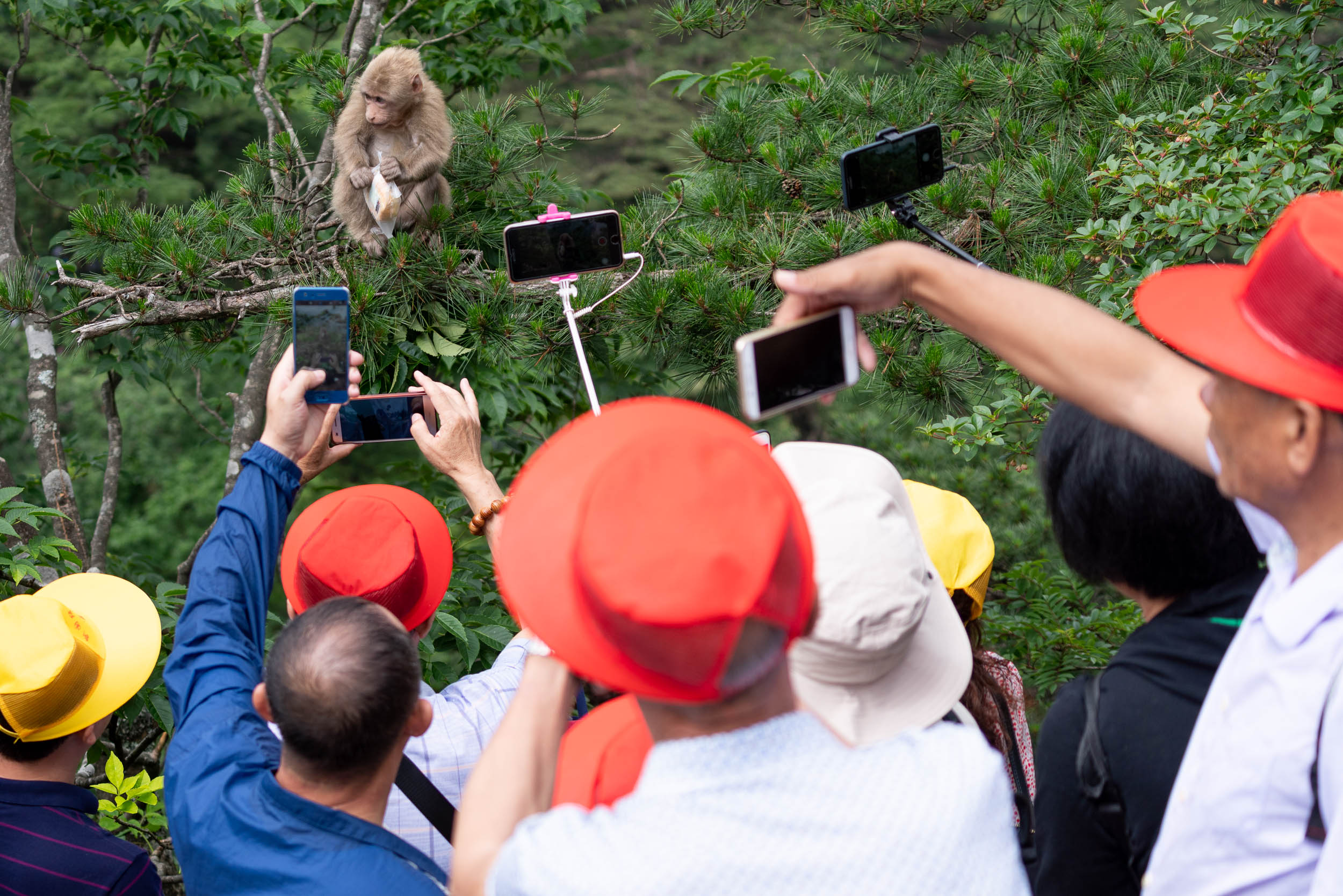 Tourists photographing a monkey in the Huangshan mountains